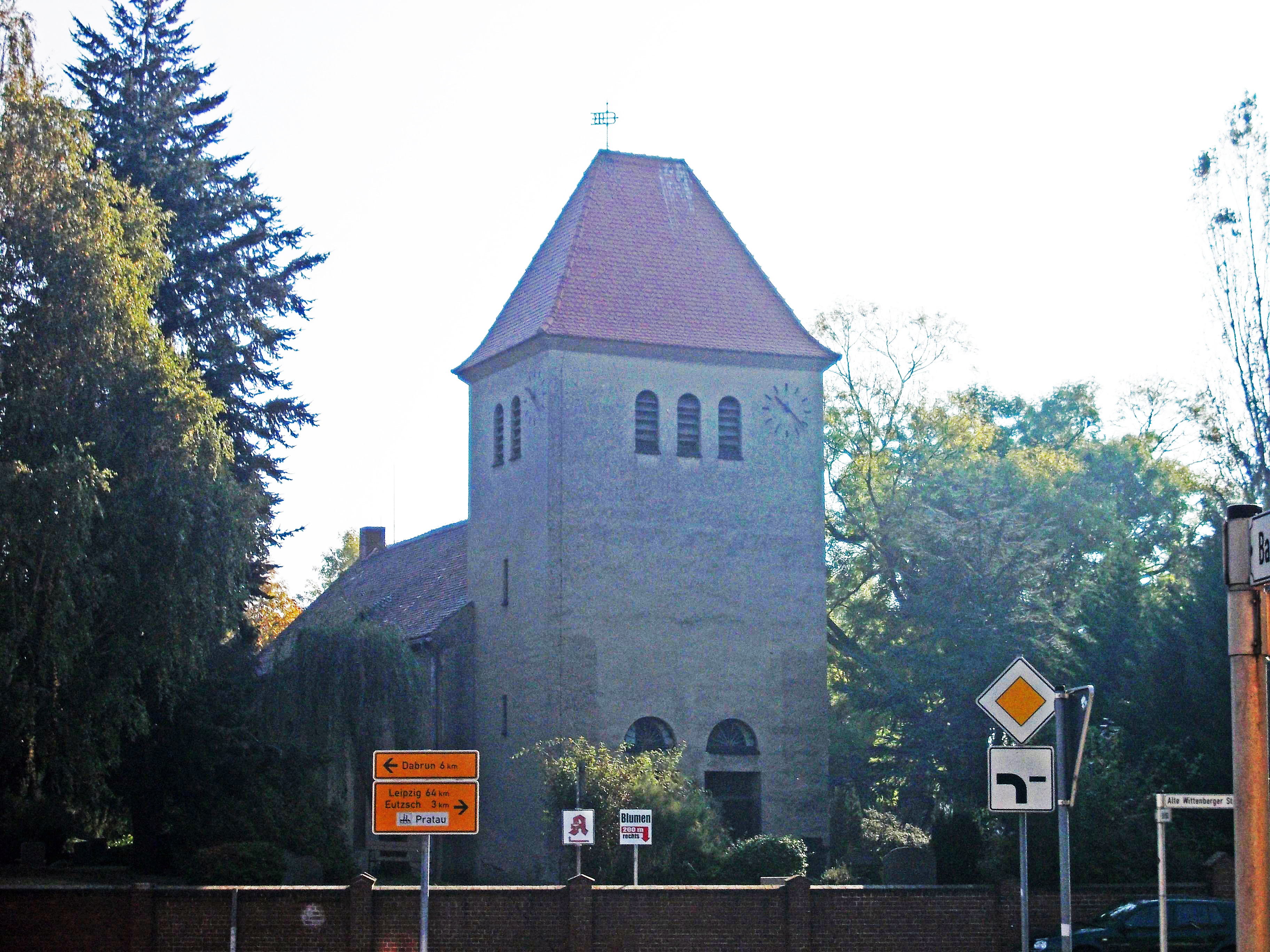 Pratau church (Wittenberg, Saxony-Anhalt)